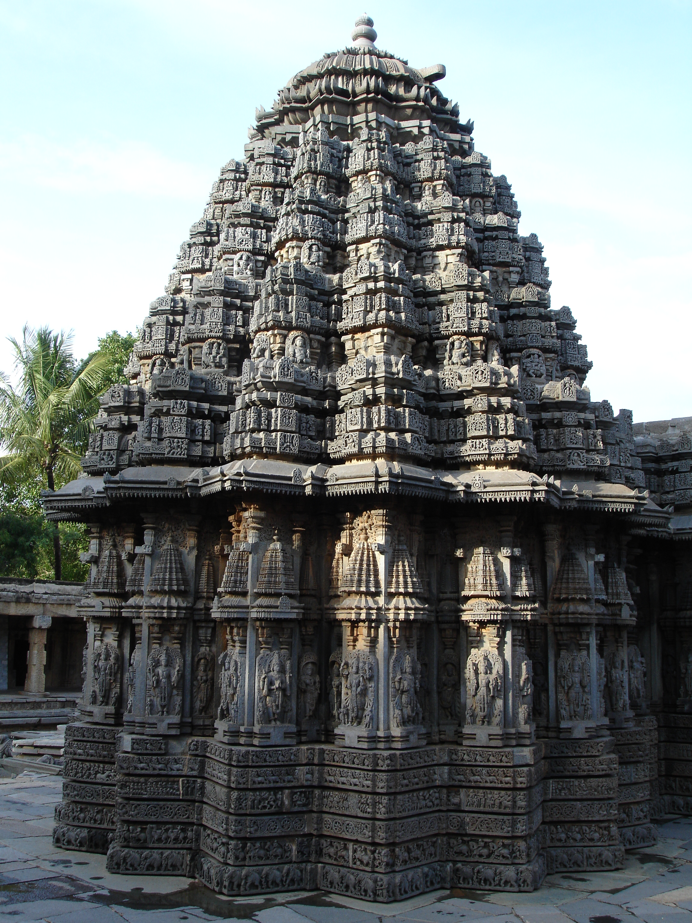 Somnathpur temple, side view of one of the towers of the Keshava Temple (13th century) at Somnathpur (Karnataka, India)